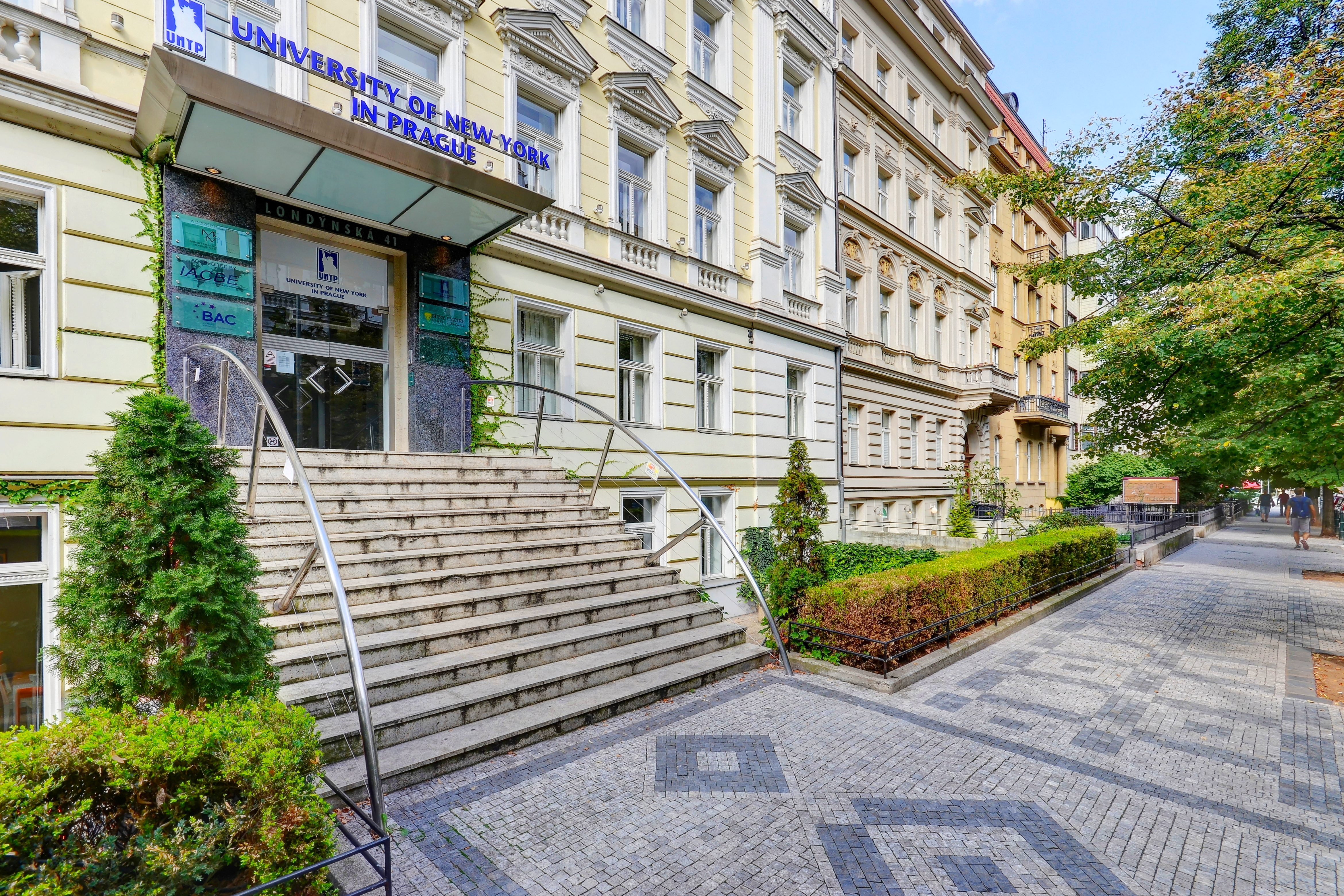 University of New York in Prague Exterior